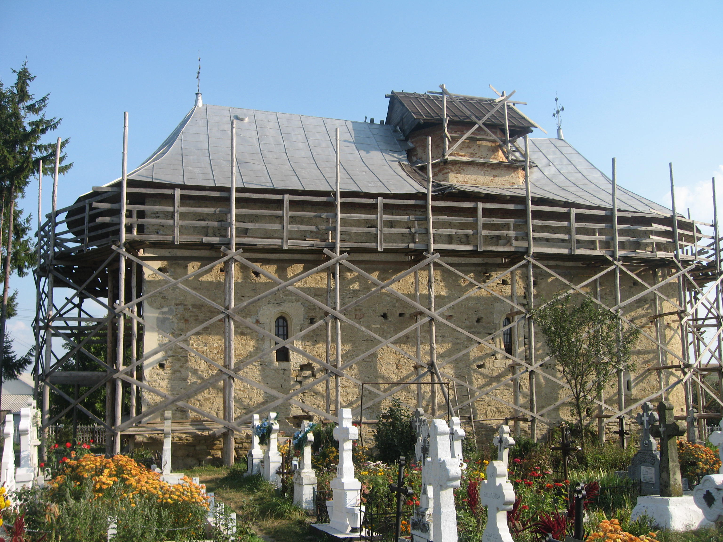 Biserica Sfântul Dumitru din Zahareşti